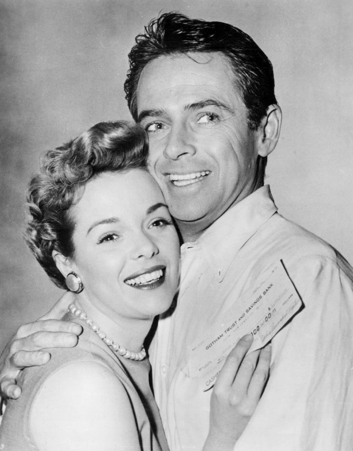 Photo of Nancy Gates and John Hudson from the television series The Millionaire.